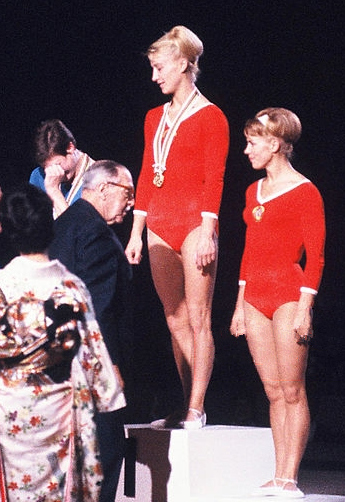 Gold Medalist Polina Astakhova (2nd R) of Soviet Union, Silver Medalist Katalin Makray-Schmitt (4th R) of Hungary and Bronze Medalist Larysa Latynina (1st R) of Soviet Union on the podium during the Uneven Bars medal ceremony of the Women's Artistic Gymnastics during the Tokyo Olympics at Tokyo Metropolitan Gymnasium on October 23, 1964 in Tokyo, Japan.